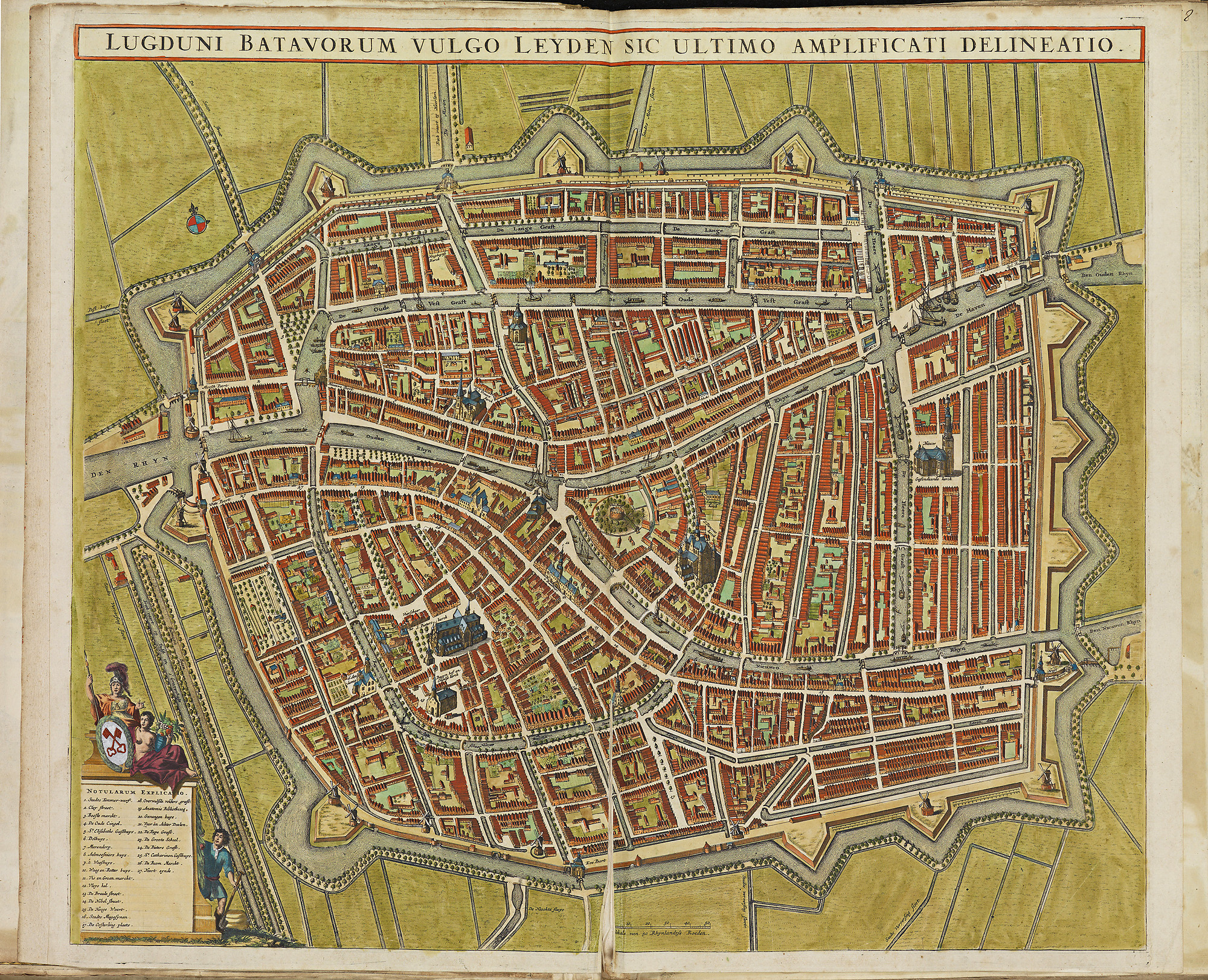 Plate 'pl017'(Leiden) from the Stedenboek (citybook) by Frederick de Wit.